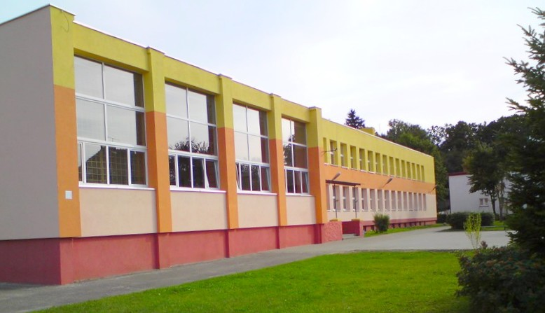 Basic school number 3 in Gryfice (Poland)